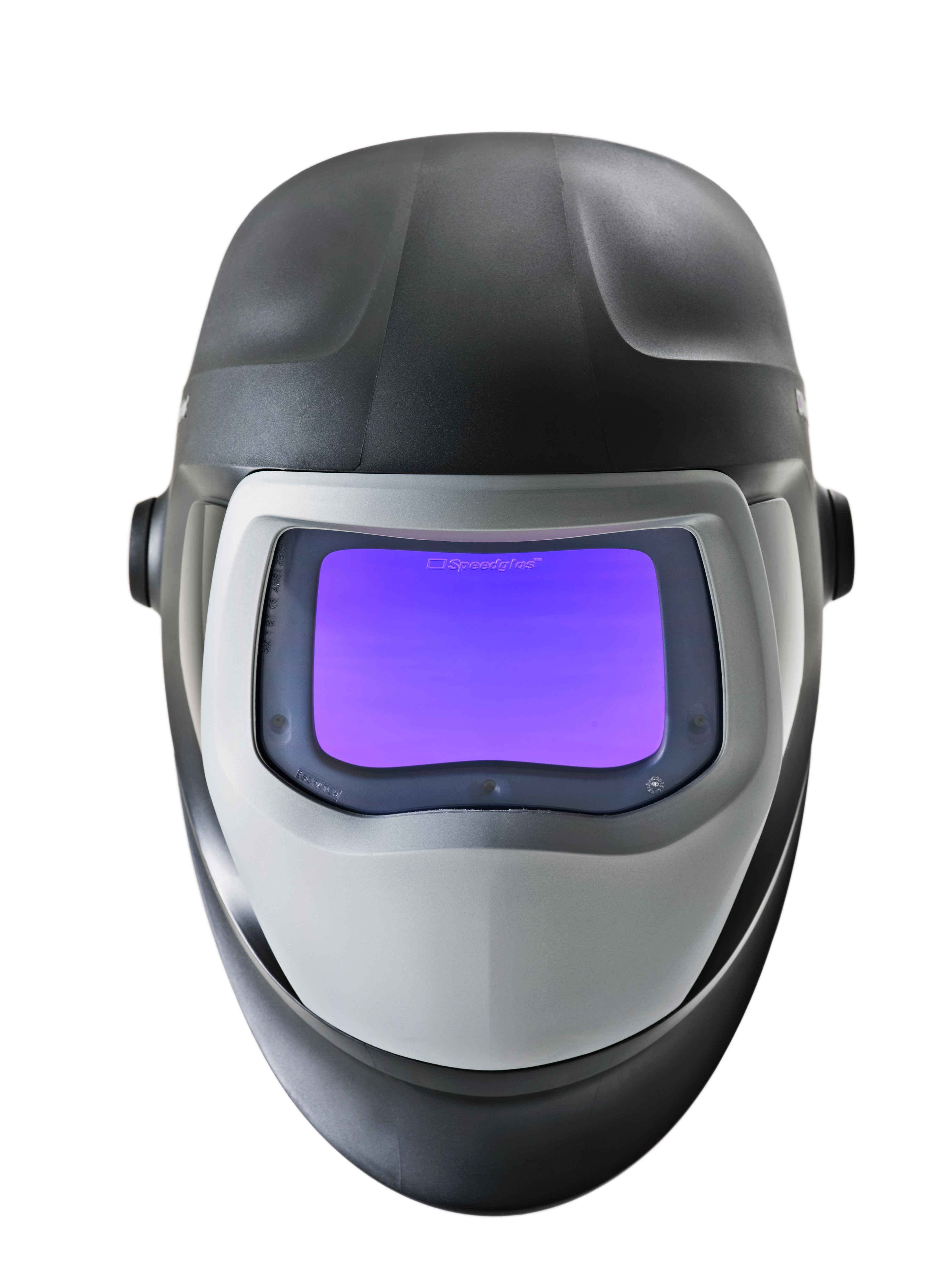 wWelding helmet Speedglas 9100, designed for 3M